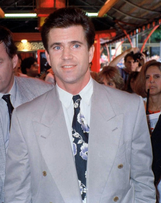 Photo of Mel Gibson at the premiere of Air America.